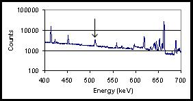 "A Germanium detector spectrum showing the annihilation radiation peak (under the arrow). Note the width of the peak compared to the other gamma rays visible in the spectrum." from the Wikipedia article "Annihilation radiation"